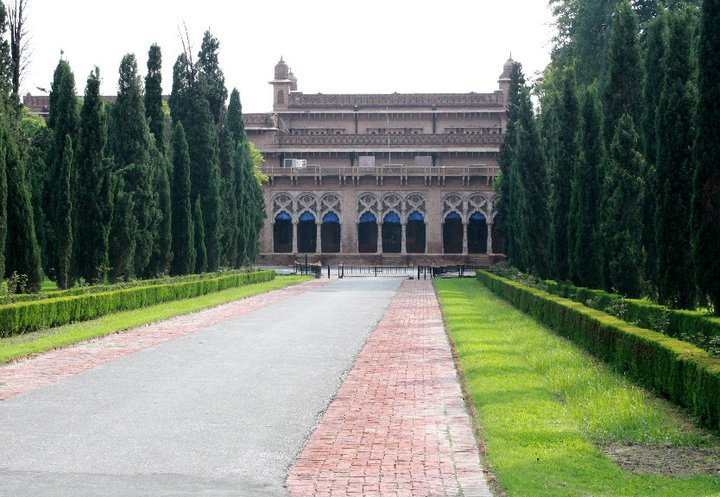 Aitchison College This is a photo of a monument in Pakistan identified as the PB-P-55